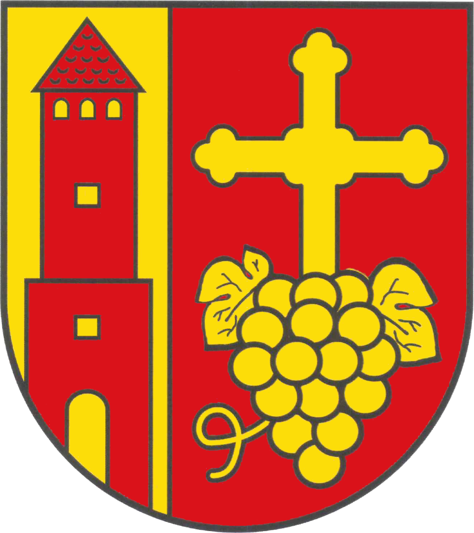 granted 1 June 2015